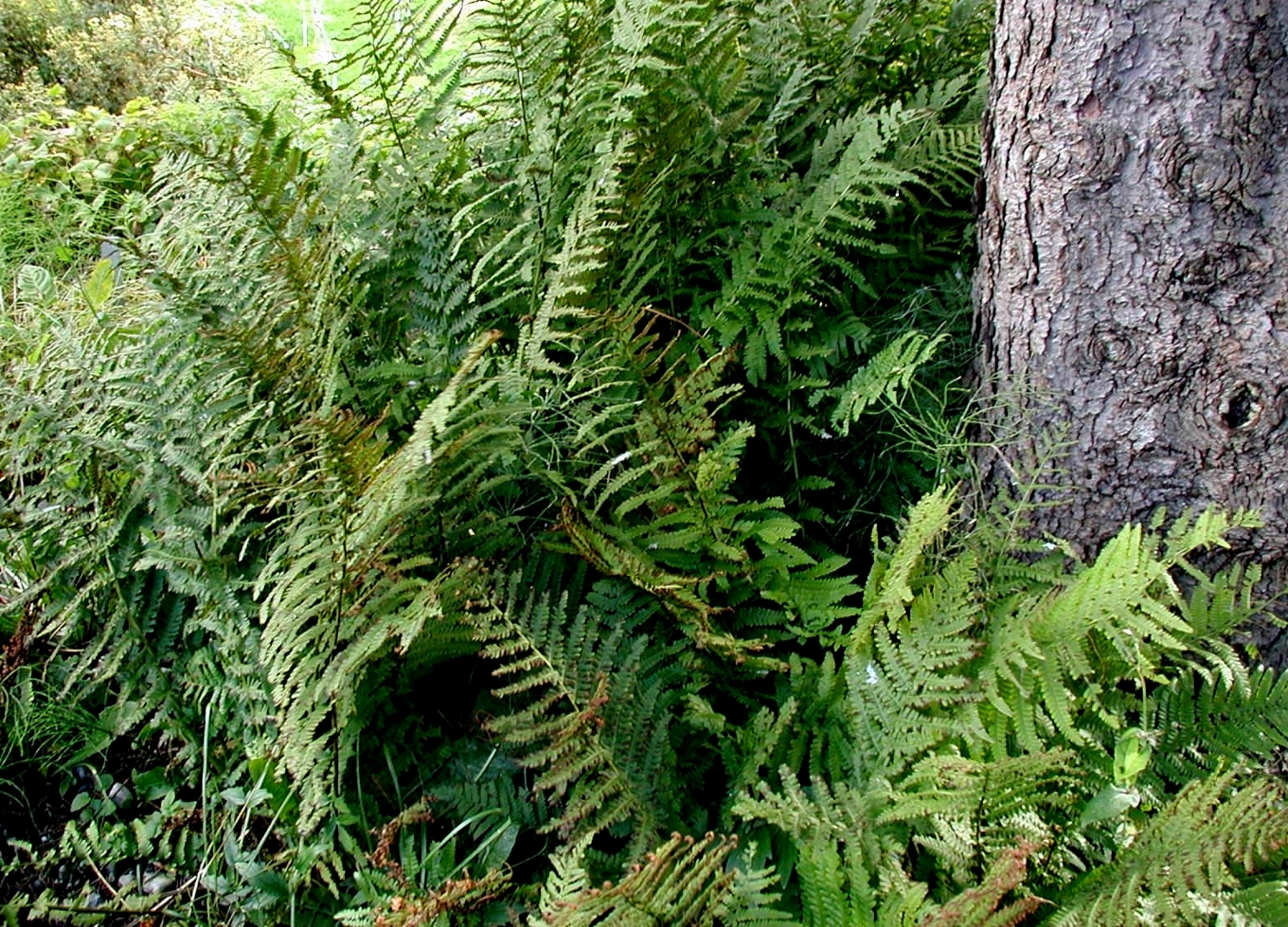 Dryopteris filix-mas: Habitus